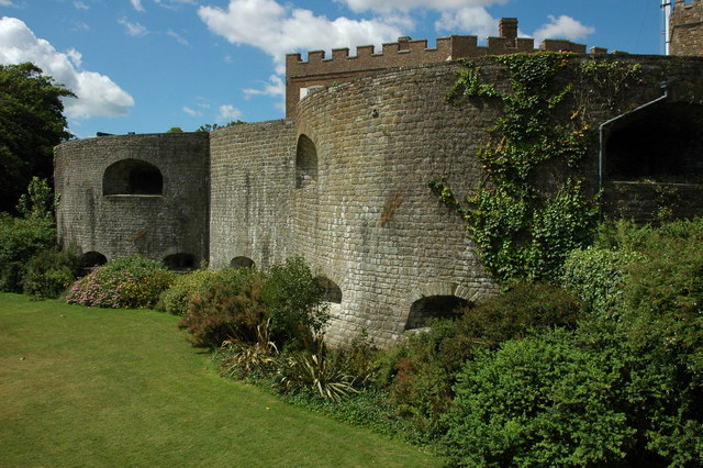 Walmer Castle Walmer Castle was built during the reign of Henry VIII, part of a network of castles built to repel an invasion from Europe. The Duke of Wellington died in Walmer Castle in 1852, he was Warden of the Cinque Ports at the time. Queen Elizabeth the Queen Mother was also Warden of the Cinque Ports until her death and occasionally stayed at Walmer Castle.